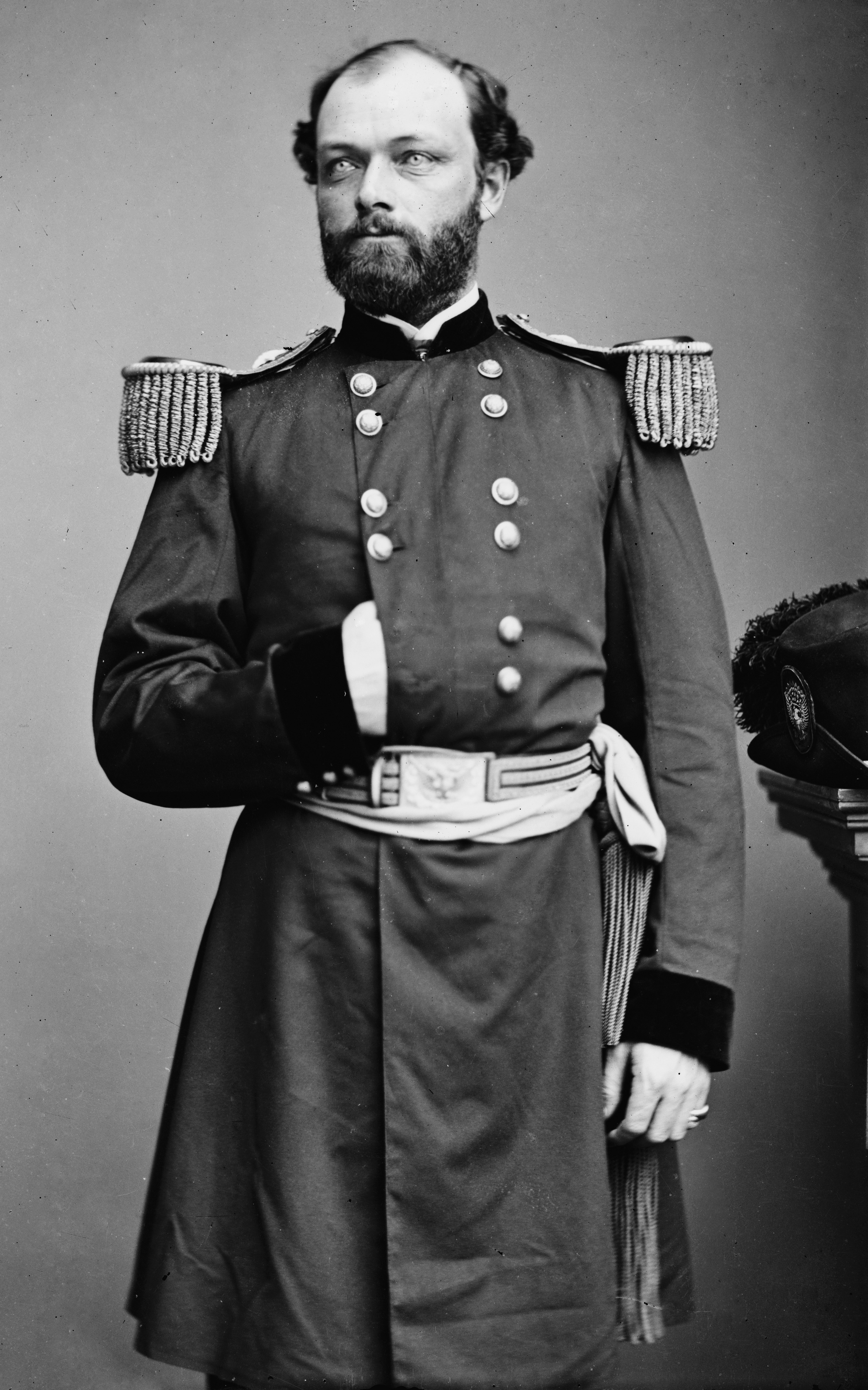 Major-General Quincy Adams Gillmore. Library of Congress description: "Portrait of Capt. Quincy A. Gillmore, officer of the Federal Army (Maj. Gen. from July 10, 1863)"